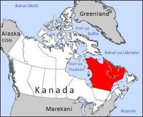 Labrador locator map, Swahili labelled Kiswahili: Mahali pa Rasi ya Labrador